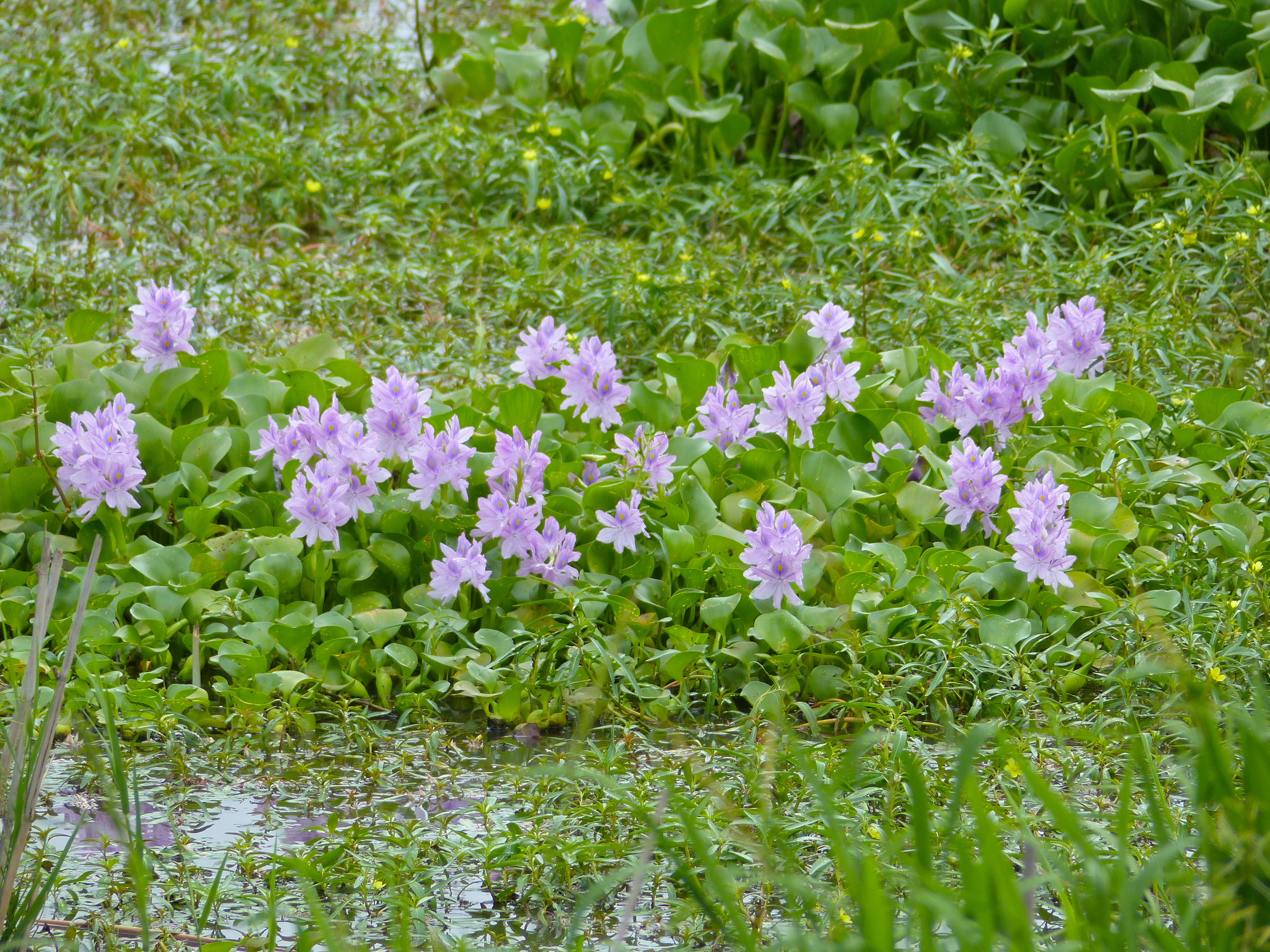 S62 Road North of Letaba, Kruger NP, SOUTH AFRICA